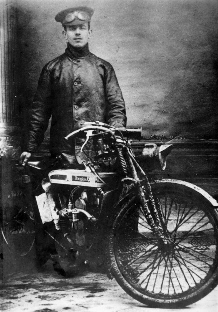 George Kimber. Possibly a despatch rider, WWI?.